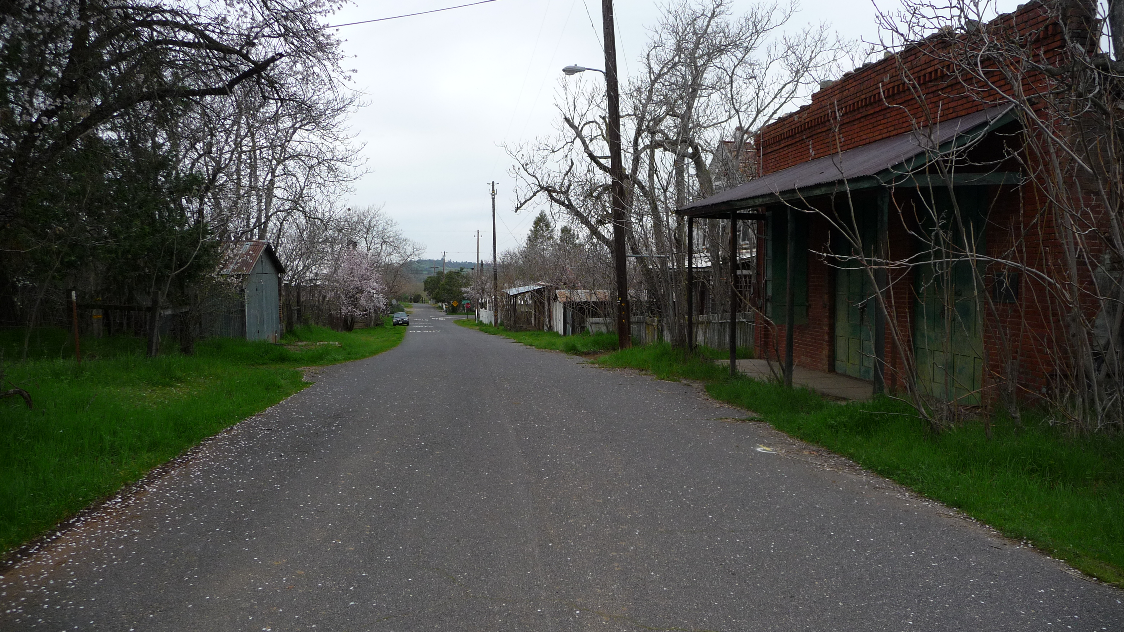 Photographed on Main Street in Chinese Camp, California.